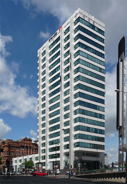 Aka Rodwell Tower. By Douglas Stephen & Partners, 1963-66. In common with many of Manchester's 1960s towers, it has recently been refurbished, and in common with a lot of those towers, the refurbishment has involved concealing concrete (and most of them have been for Bruntwood, ubiquitous local property developers). Even so, it's a slick job, the forceful verticals and horizontal bands combining to form a satisfying composition. The lower section to the left straddles the Rochdale Canal.